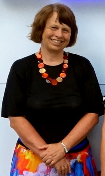 Ewine van Dishoeck